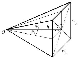 Illustration of a solid angle for a pyramid